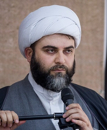 Mohammad Qomi